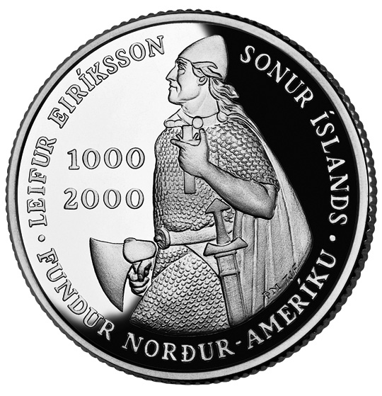 2000 Leif Ericson Icelandic 1000 Krona Obverse